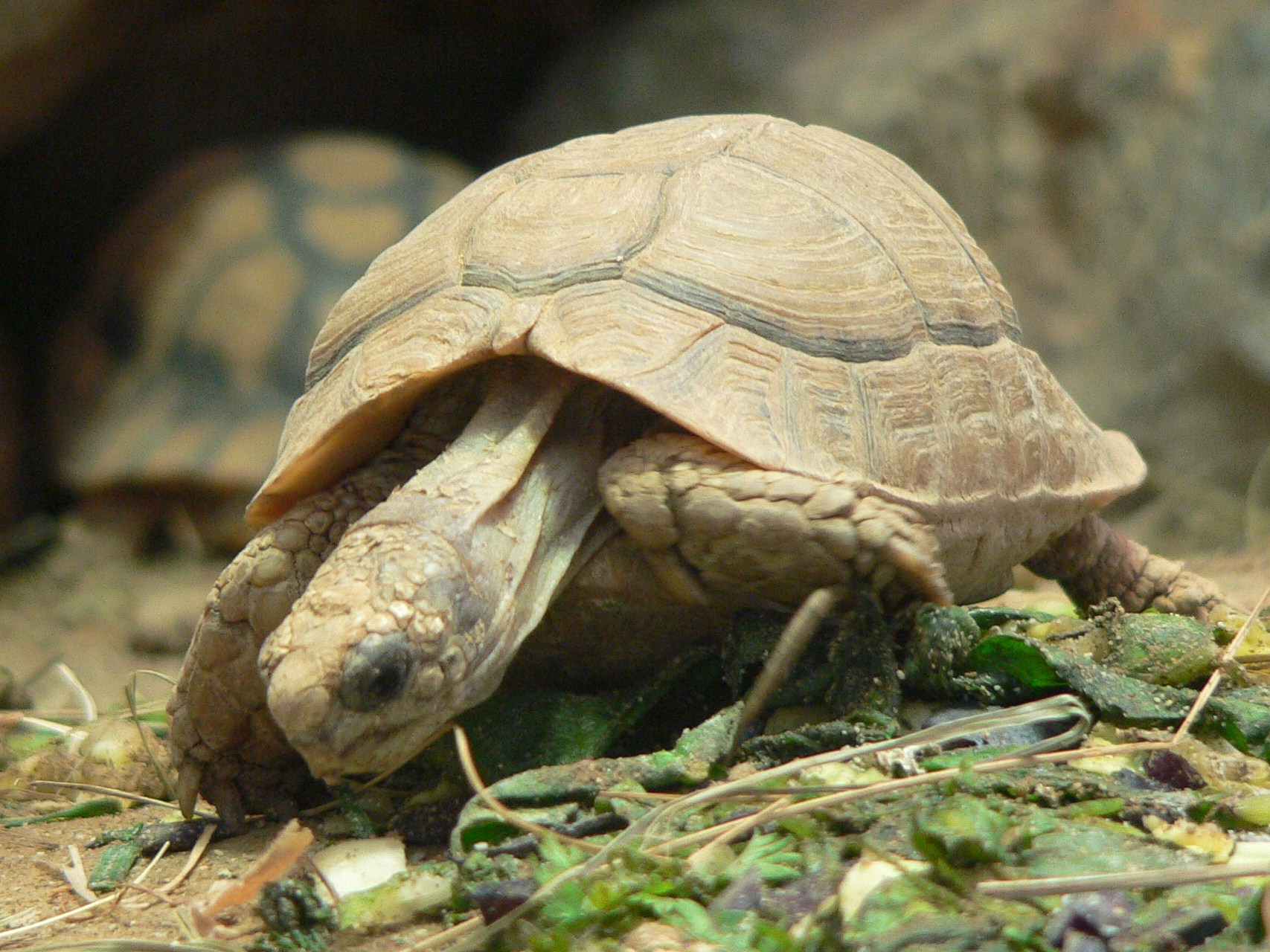 Testudo kleinmanni